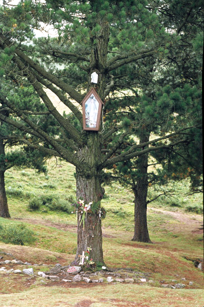 Tree on which they claim there were apparitions of the Virgin Mary. San Sebastián de Garabandal. Cantabria, Spain